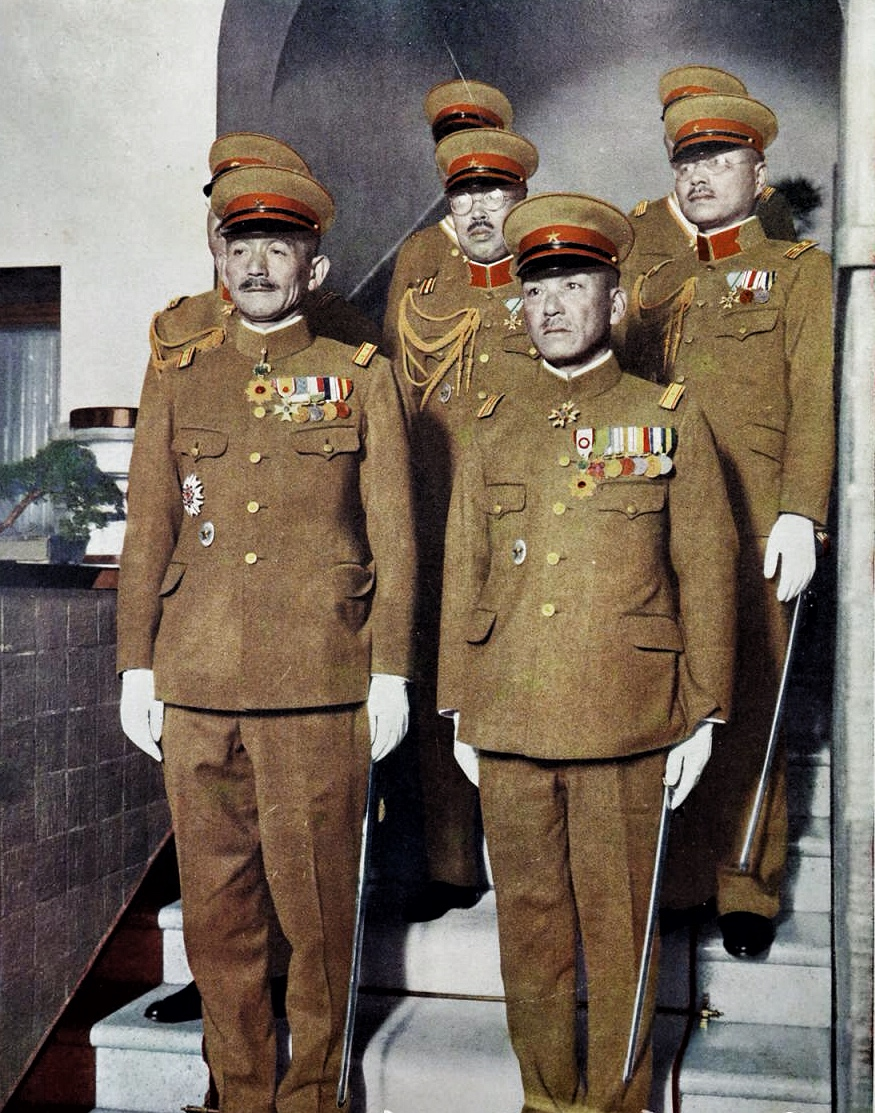 Kwantung Army Generals in the 1930s